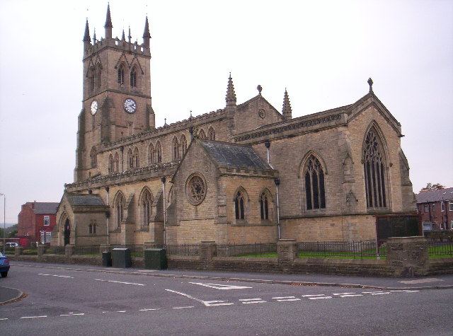 Parish church of St James with St Thomas, Hardman Street, Poolstock, Wigan, Greater Manchester, seen from the east